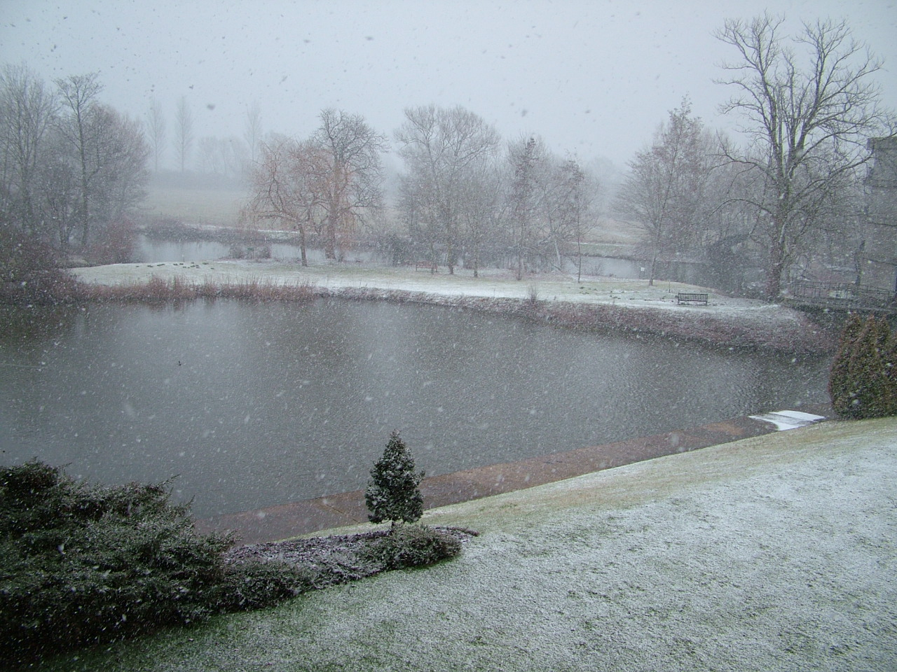 Wolfson College in Oxford during an unusually snowy winter's day.